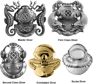 United States Marine Corps Diving Insignia